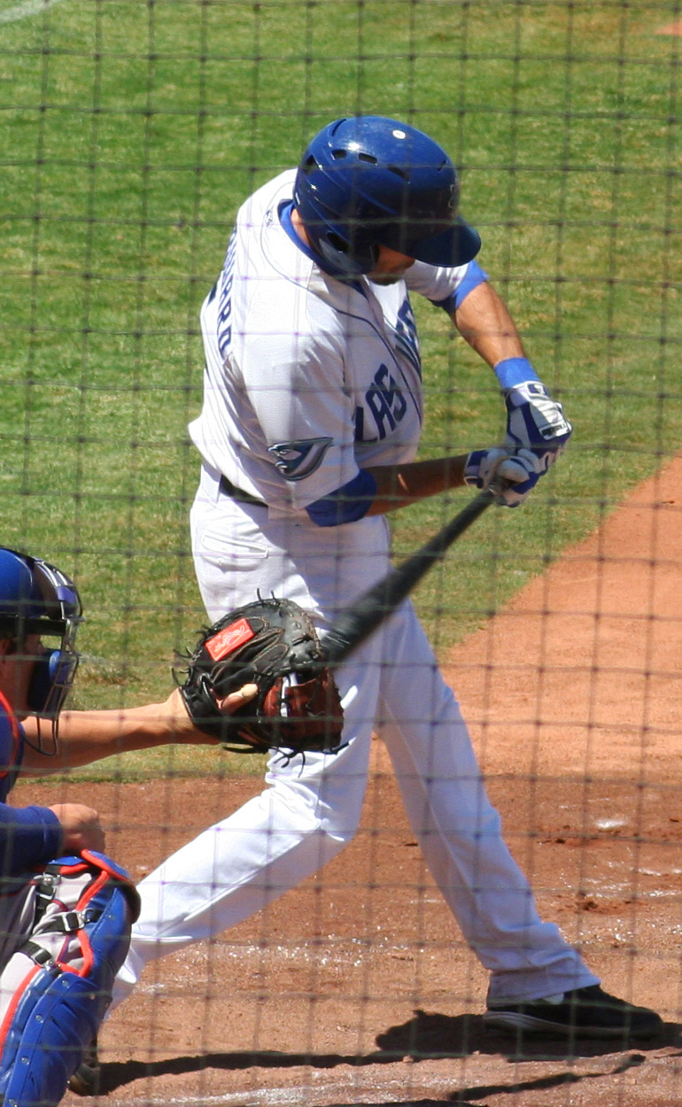 Chris Woodward